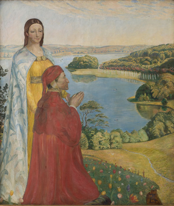 Dante and Beatrice in Paradise